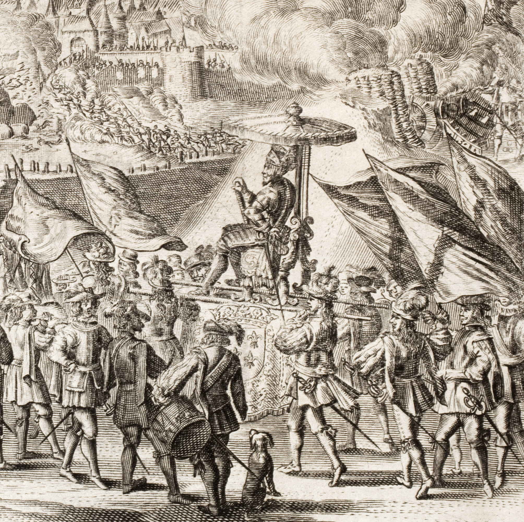 Soldiers celebrating the capture of Maastricht and hiding the loot in June 1579. Detail of a 17th-century engraving depicting the Siege of Maastricht in 1579. Engraving by Pierre Du Ryer (ca.1606-1658) in the historical work De Bello Belgico decades duae, 1555-1590 by Famiano Strada (1572-1649), published in 1632. Collection of the Peace Palace Library, The Hague.